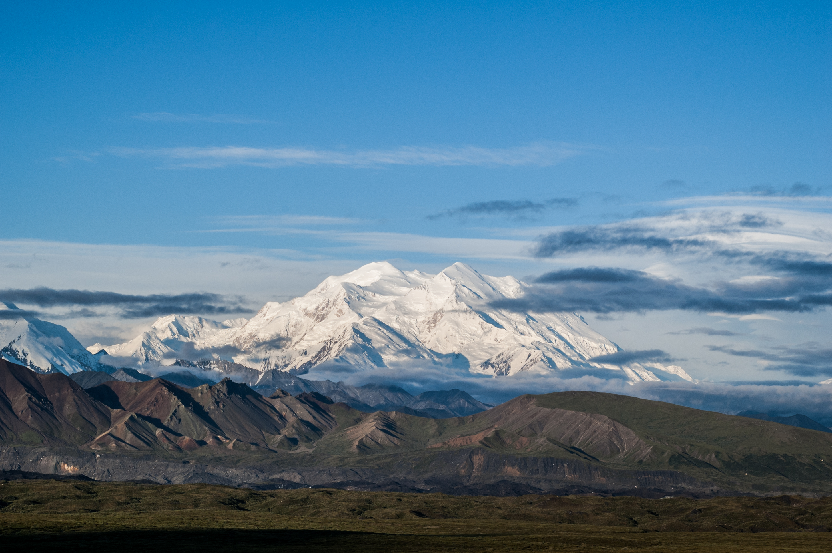 Mt. McKinley, Denali National Park, Alaska